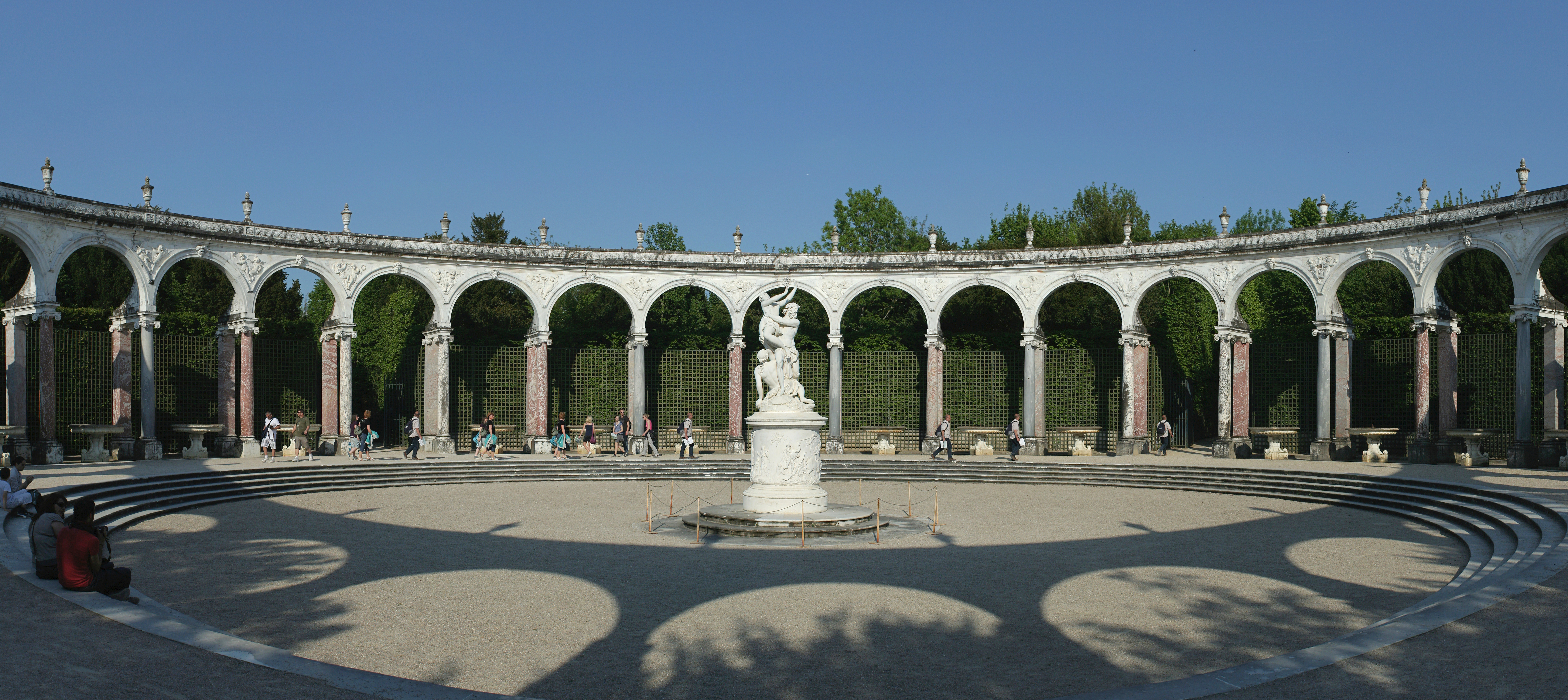 Colonnade's grove in the Parc de Versailles (Versailles' château park), Versailles, France.